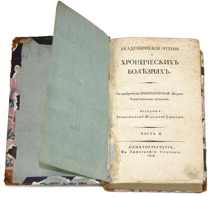 The book of Friedrich Uhden. Published in 1816.